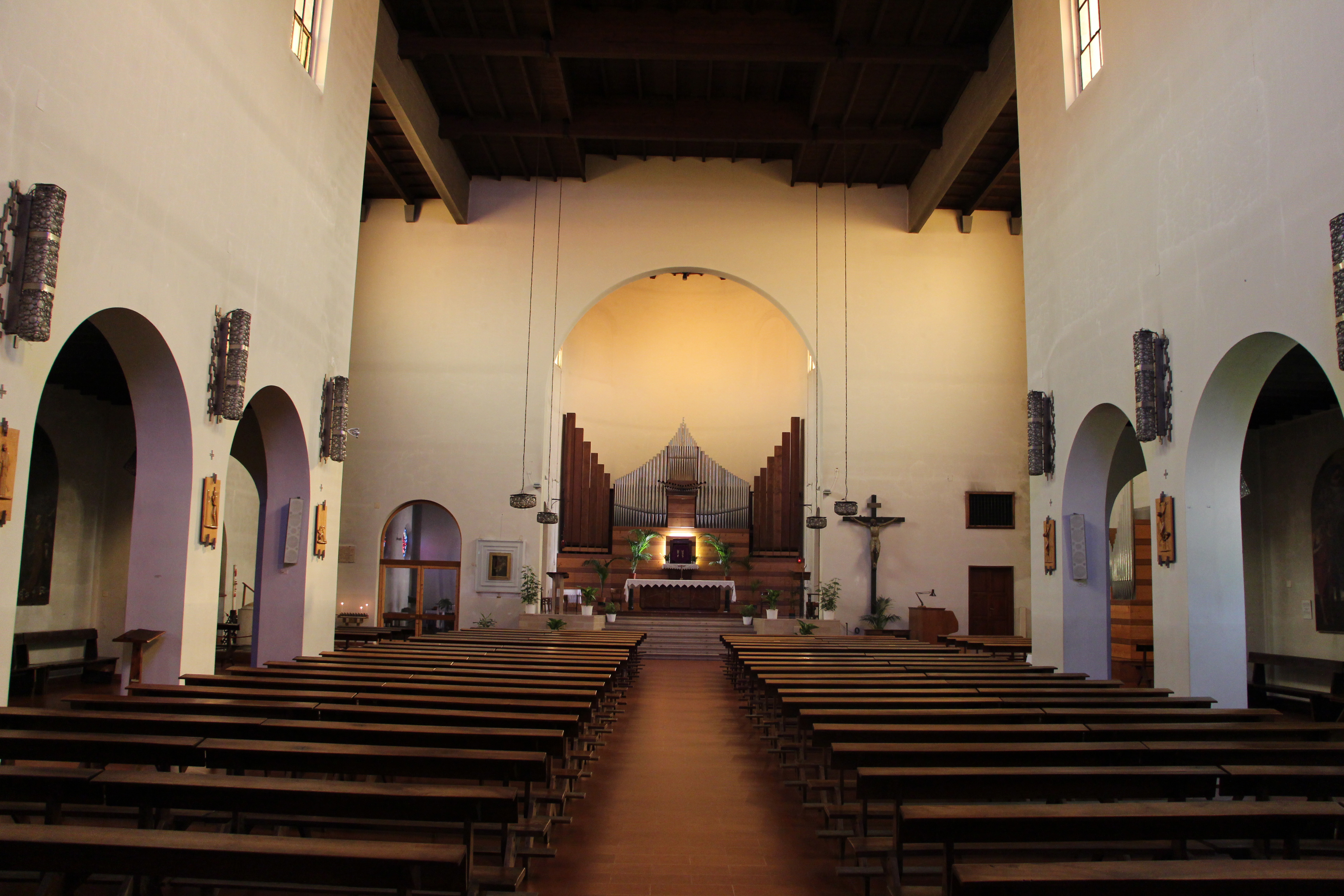 Immacolata (Florence) - Interior